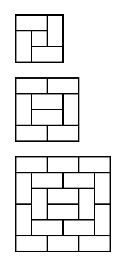 Possible patterns for a tatami floor.